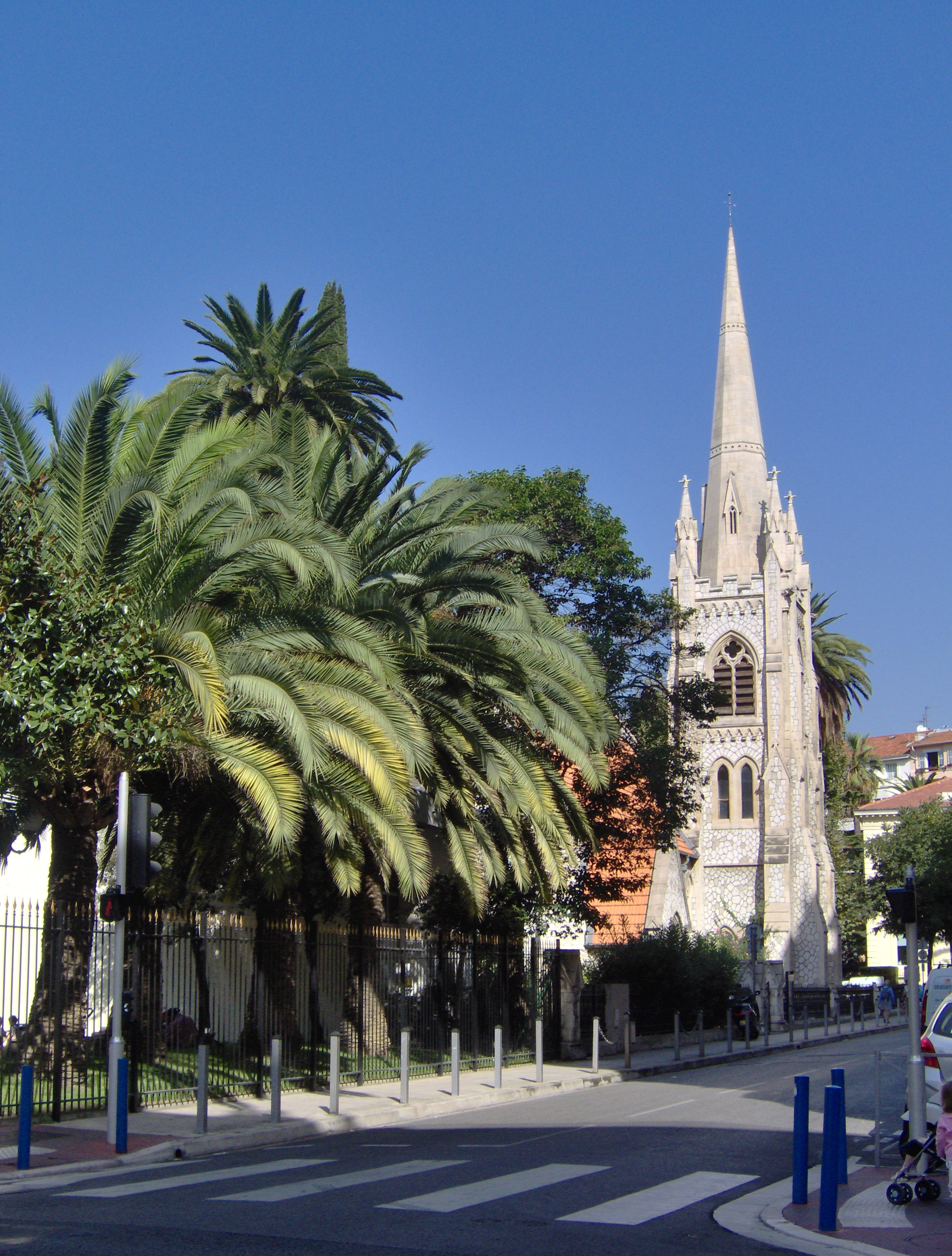 Reformed church of Nice, France